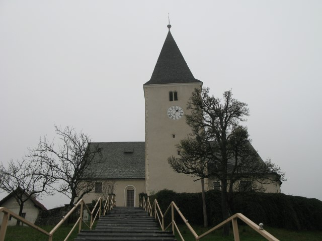 Church of St. Peter and Paul, Veliko Tinje